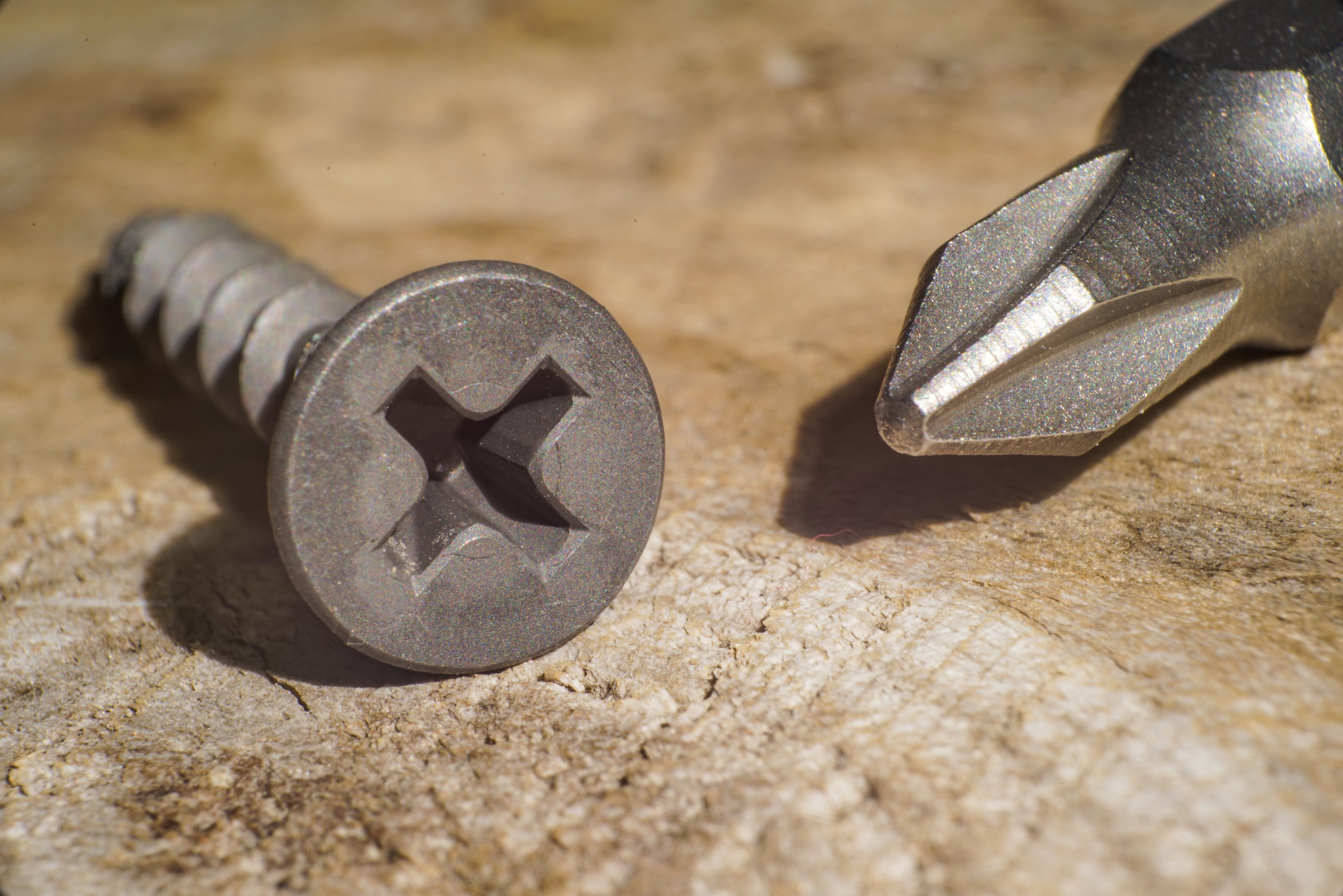 Phillips screwdriver and screw